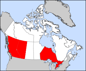 Map indicating provinces of Canada where Australian rules football is organised (red)